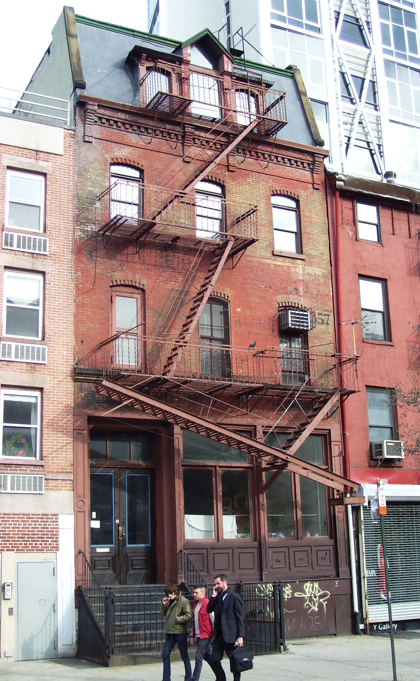 The Germania Fire Insurance Company Bowery Building at 357 Bowery between East 3rd and 4th Streets in the East Village neighborhood of Manhattan, New York City was built in 1870 and was designed Carl Pfeiffer. It was designated a New York City landmark in 2010. (source: NYCLPC Designation Report)